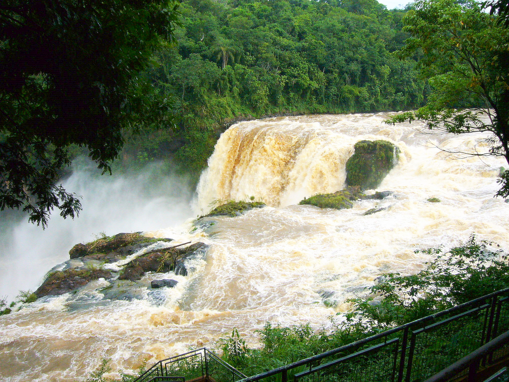 Saltos del Monday en Alto Paraná